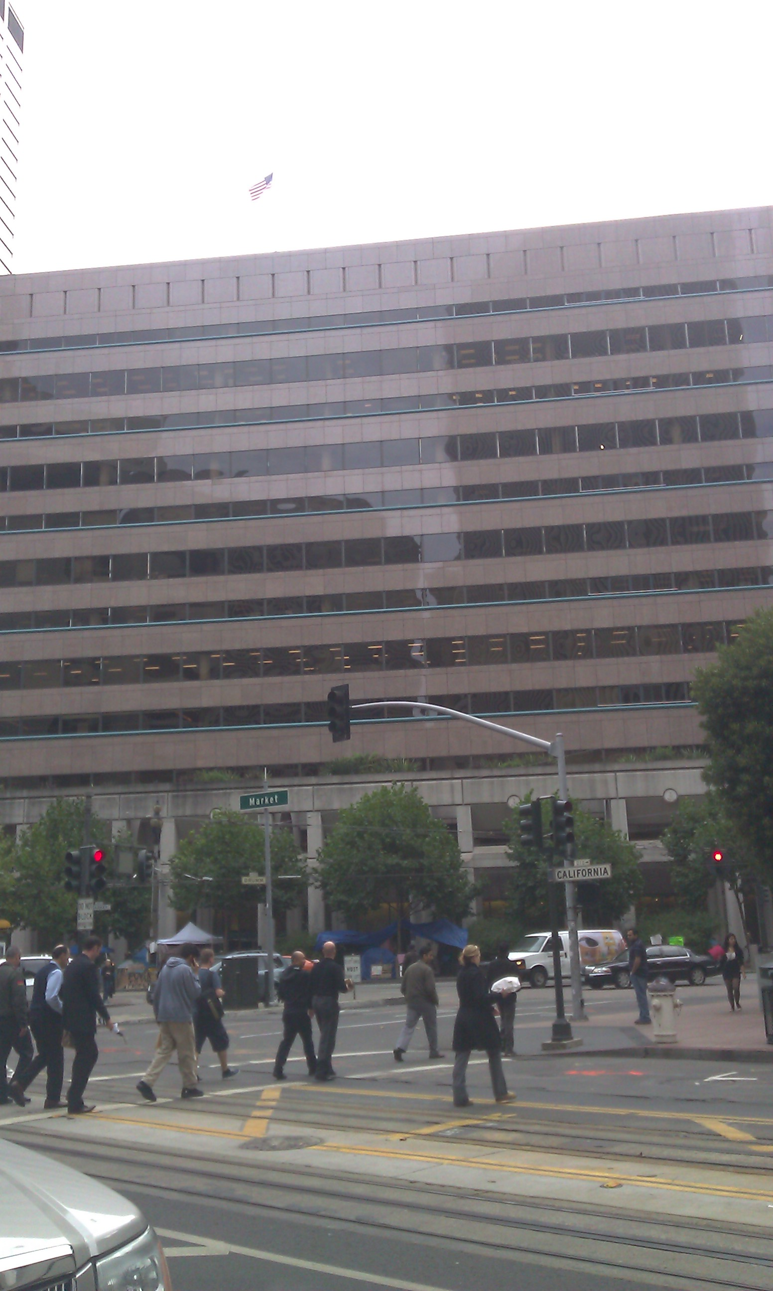 The San Francisco Federal Reserve building, head on from the corner of California and Drumm